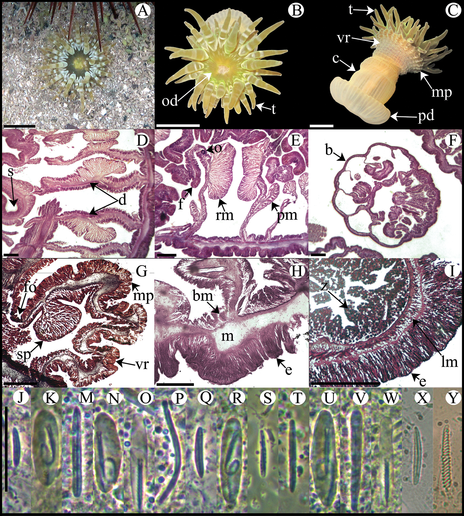 Isoaulactinia stelloides. A Live specimen in natural habitat B Oral view C Lateral view D Detail of directives showing a siphonoglyph E Cross section through proximal column F Detail of brooded juvenile G Longitudinal section through margin showing marginal sphincter muscle and marginal projection H Longitudinal section though base showing basilar muscles I Cross section through tentacle J–Y Cnidae.– marginal projection: J small basitrich K macrobasic p-mastigophore; actinopharynx: M basitrich N macrobasic p-mastigophore O microbasic p-mastigophore P long, curved basitrich; column: Q small basitrich R macrobasic p-mastigophore; filament: S small basitrich T basitrich U macrobasic p-mastigophore V microbasic b-mastigophore W microbasic p-mastigophore; tentacle: X basitrich Y spirocyst. Abbreviations.– b: brooded juvenile, bm: basilar muscle, c: column, d: directives, e: epidermis, fo: fosse, lm: longitudinal muscle, m: mesoglea, mp: marginal projection, o: oocyst, od: oral disc, pd: pedal disc, pm: parietobasilar muscle, rm: retractor muscle, s: siphonoglyph, sp: sphincter, t: tentacle, vr: verrucae, z: zooxanthellae. Scale bars: A–C: 10 mm; D–I: 200 μm; J–Y: 25 μm.